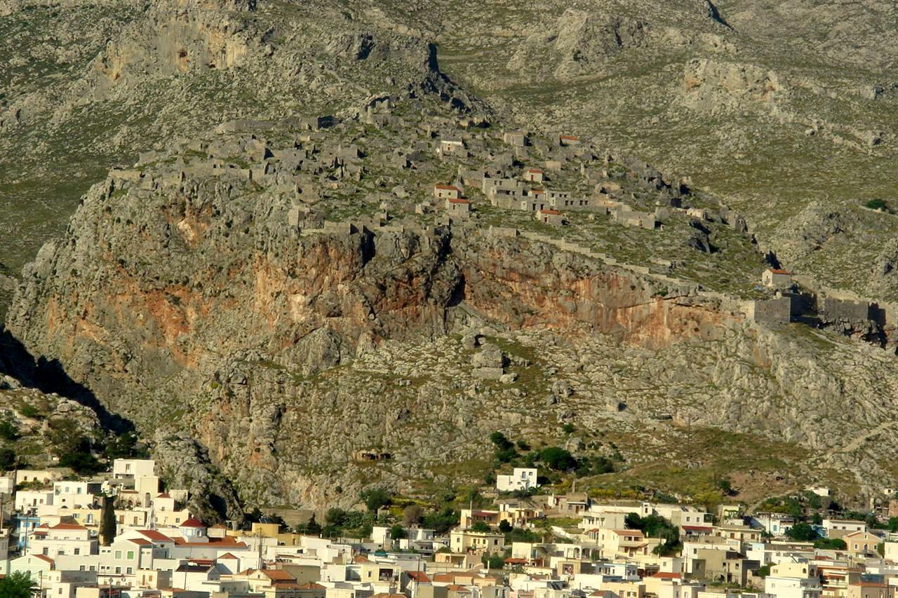 Medieval town-castle of Chorio (Chora), Kalymnos Object location36° 58′ 03.99″ N, 26° 57′ 39.36″ E